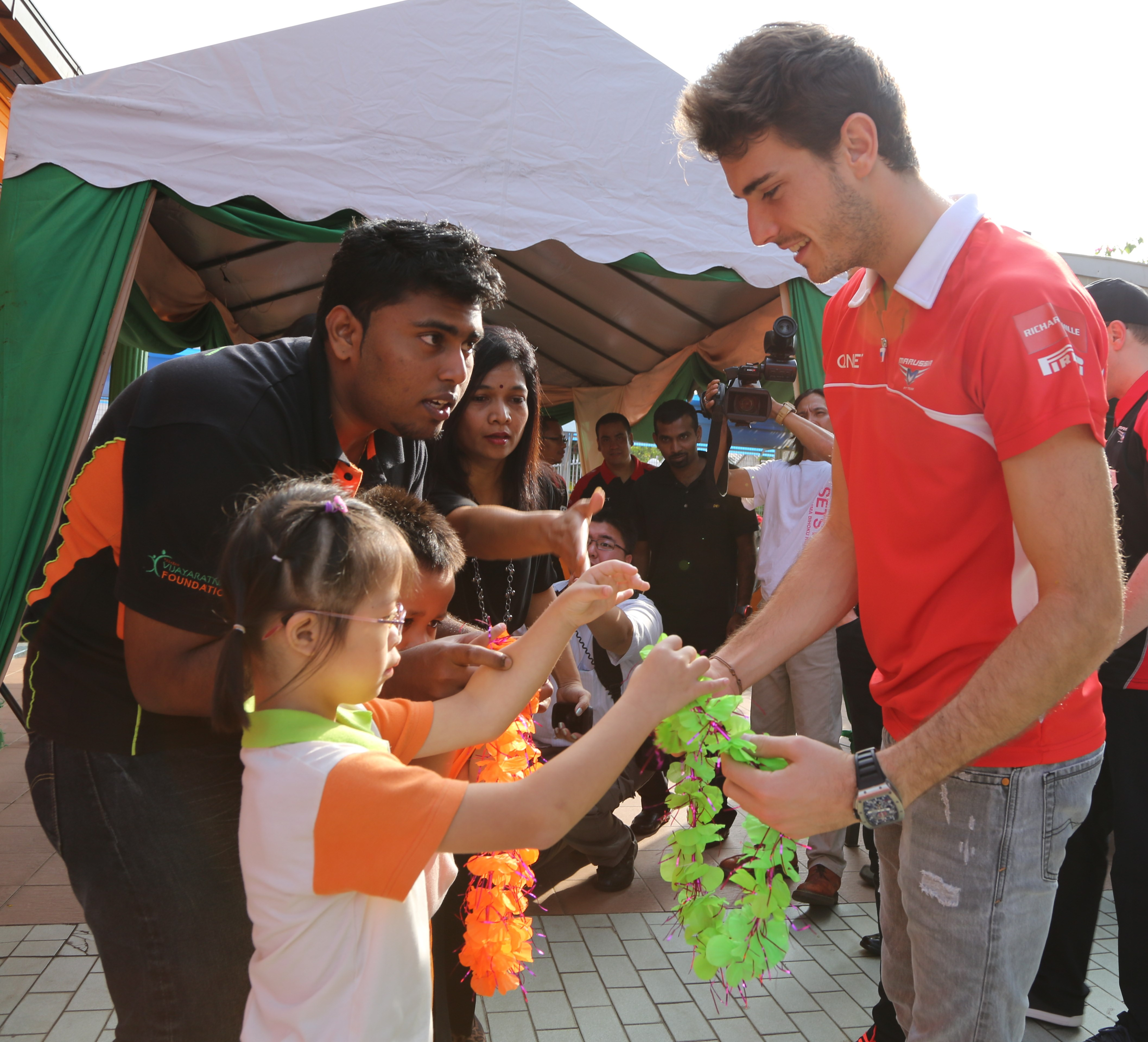 Marussia F1 driver Jules Bianchi at a promotional event in Taarana, Malaysia.